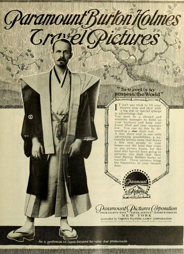 Advertisement in Moving Picture World, Aug 1917